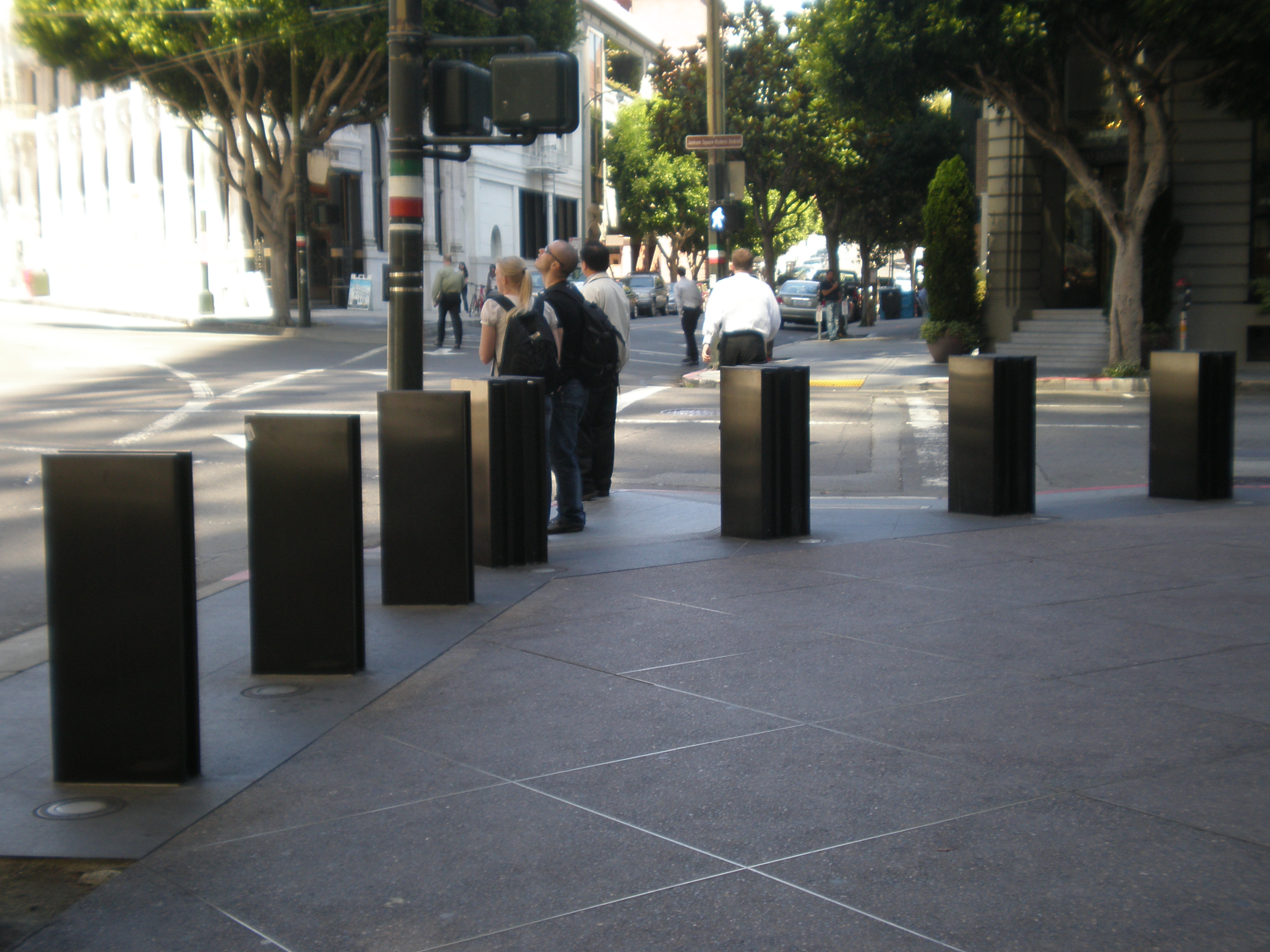 Anti-car bomb metal barricades around the base of the Transamerica Pyramid in San Francisco.